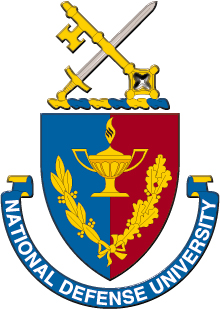 National Defense University emblem